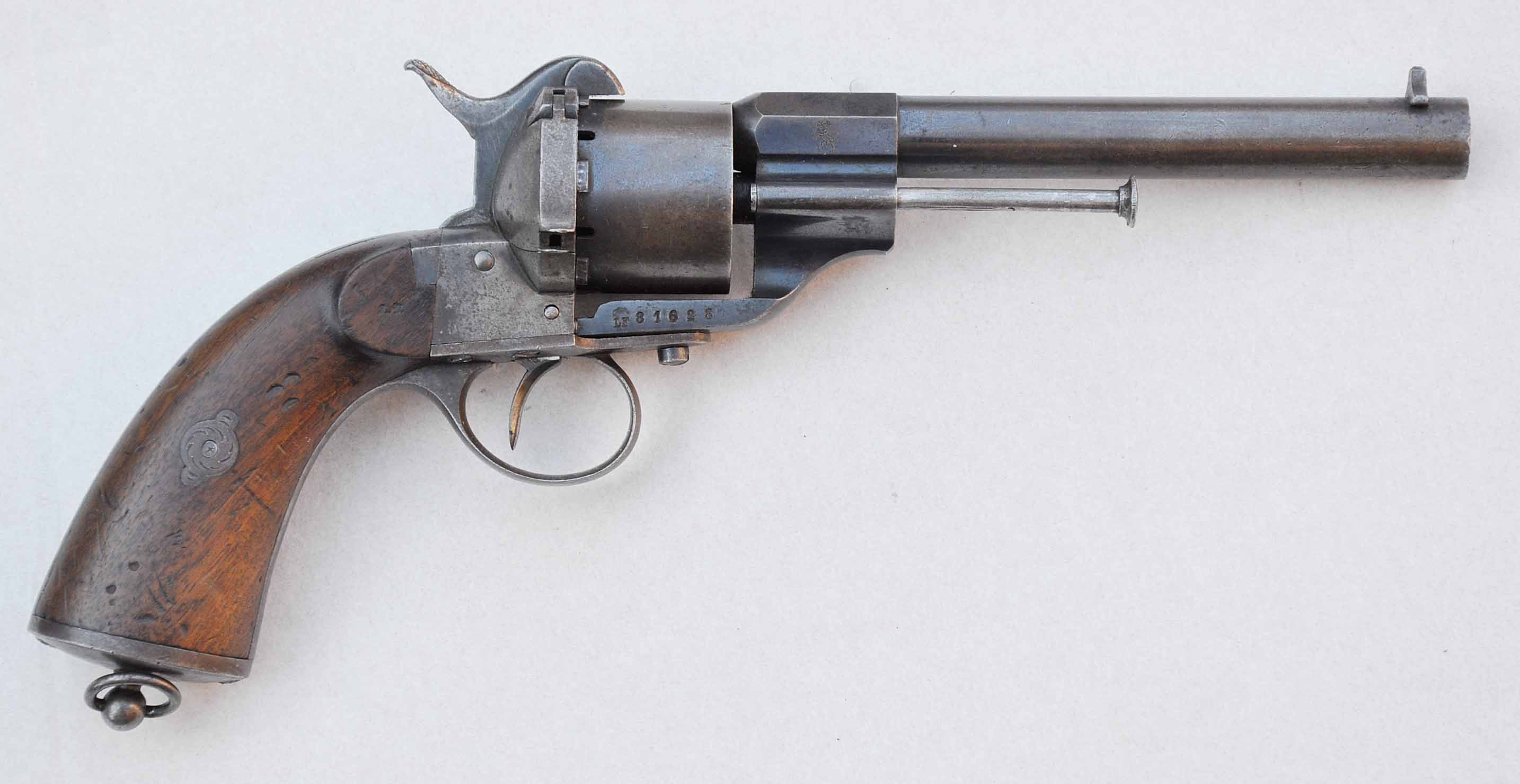 Norsk enkeltspent Lefaucheux revolver M/1864 innkjøpt fra Lefaucheux i Frankrike